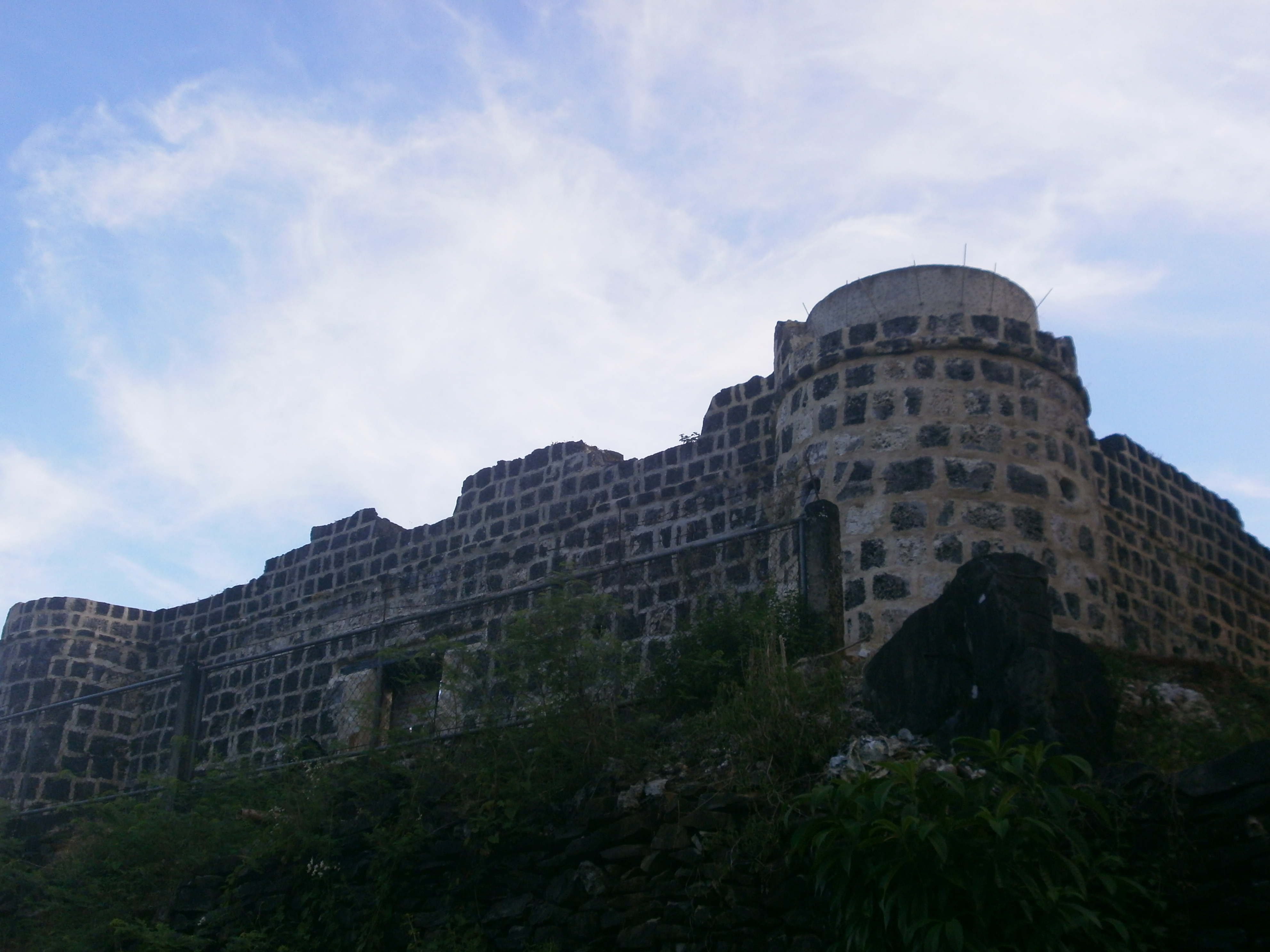 Fort San Andres is a 17th century Spanish colonial fortification under the supervision of Fr. Agustin de San Pedro